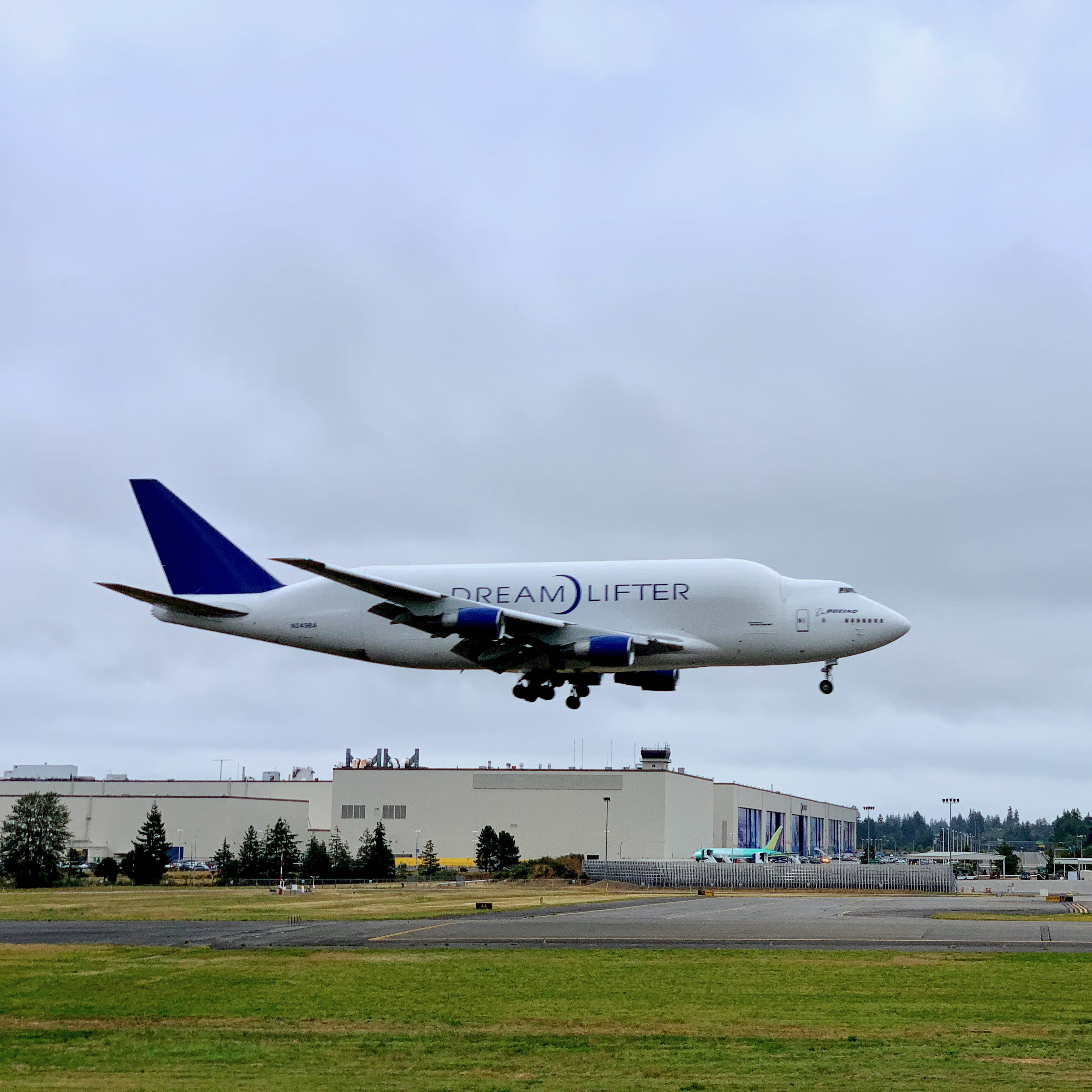 Boeing Dreamlifter landing in Paine Field Airport, Washington.